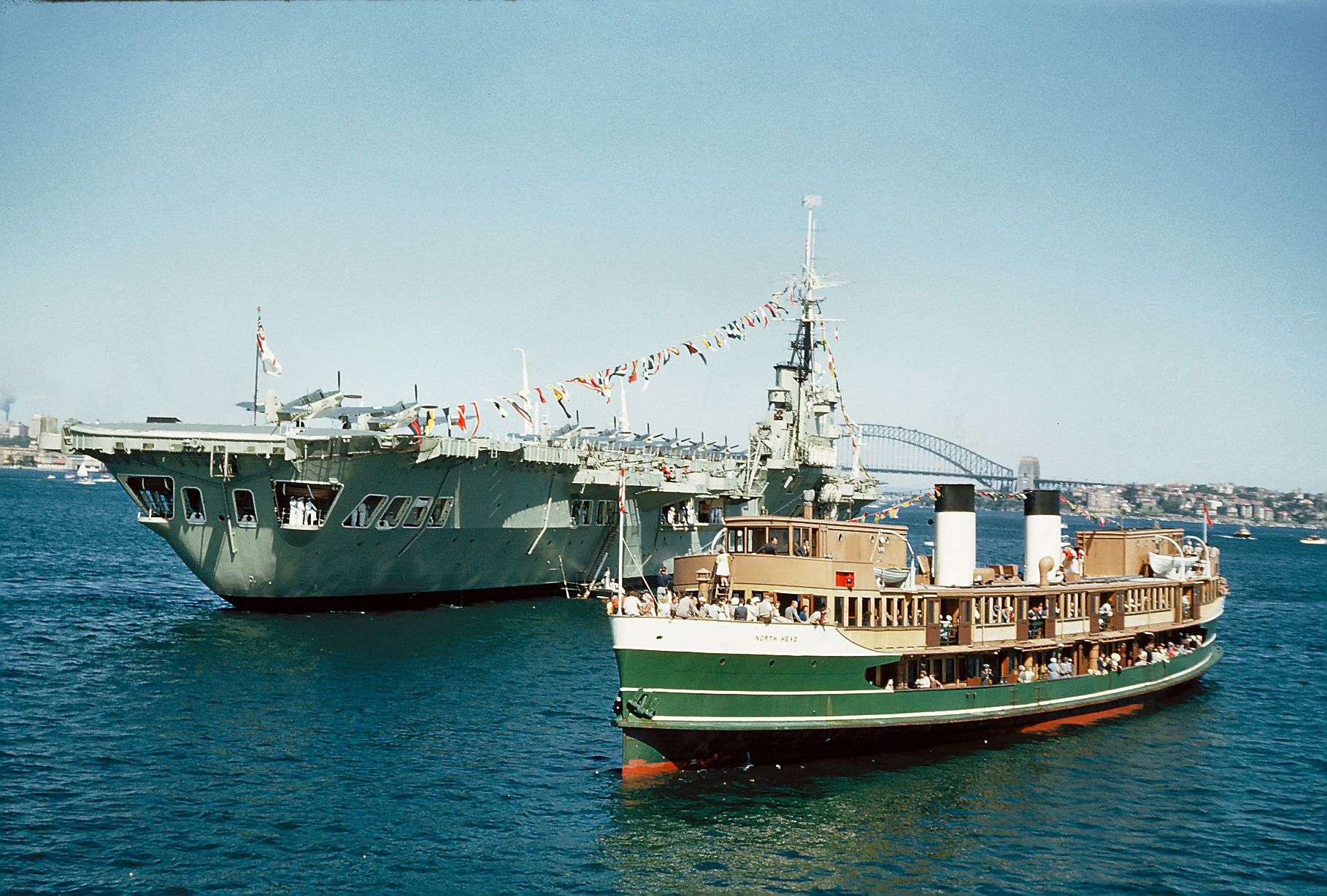 Sydney ferry NORTH HEAD alongside HMAS VENGEANCE 3 March 1954. The occasion was the arrival into Sydney of the Queen and Duke of Edinburgh onboard the Royal Yacht S S GOTHIC on 3 March 1954. Earlier in the day, GOTHIC had been escorted into Sydney Harbour by VENGEANCE and other naval ships. The two ships anchored in Athol Bay between Bradleys Head and Cremorne Point, from where the Queen & Duke left GOTHIC by Royal Barge to Farm Cove for the official welcome. This photo by Noel Reed would likely have been taken later in the day from Bradleys Head or Ashton Park.